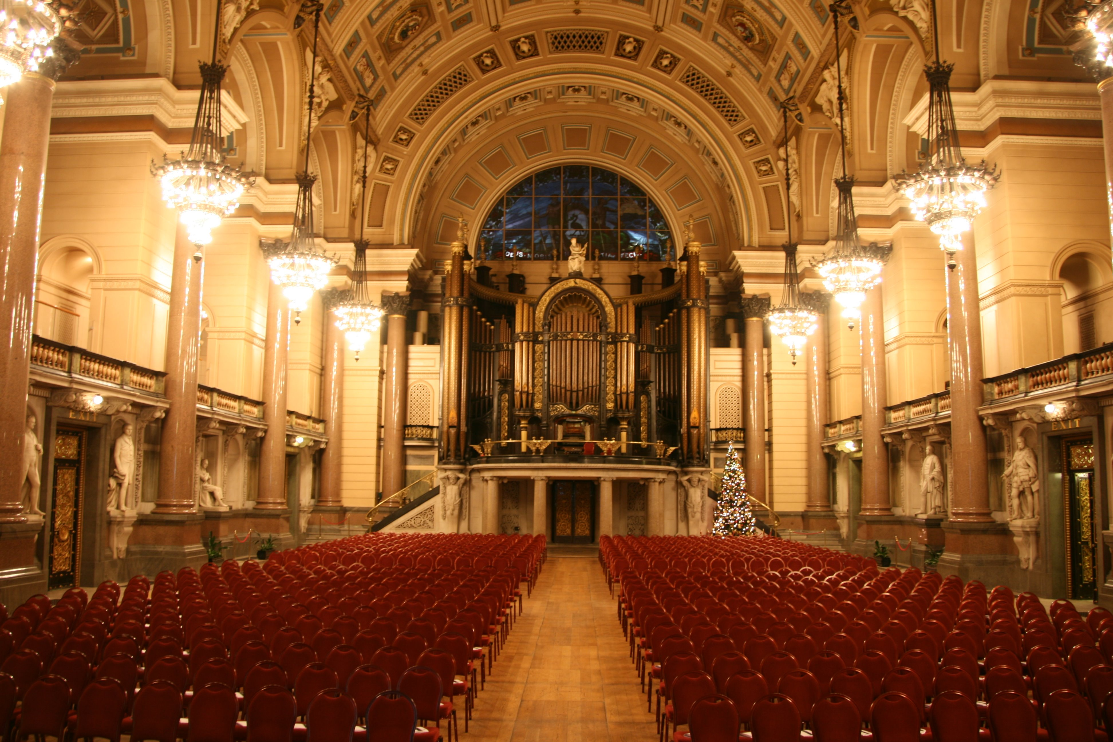 The organ in St. George's Hall built by Henry Willis in 1855 (marble tiling on floor covered)